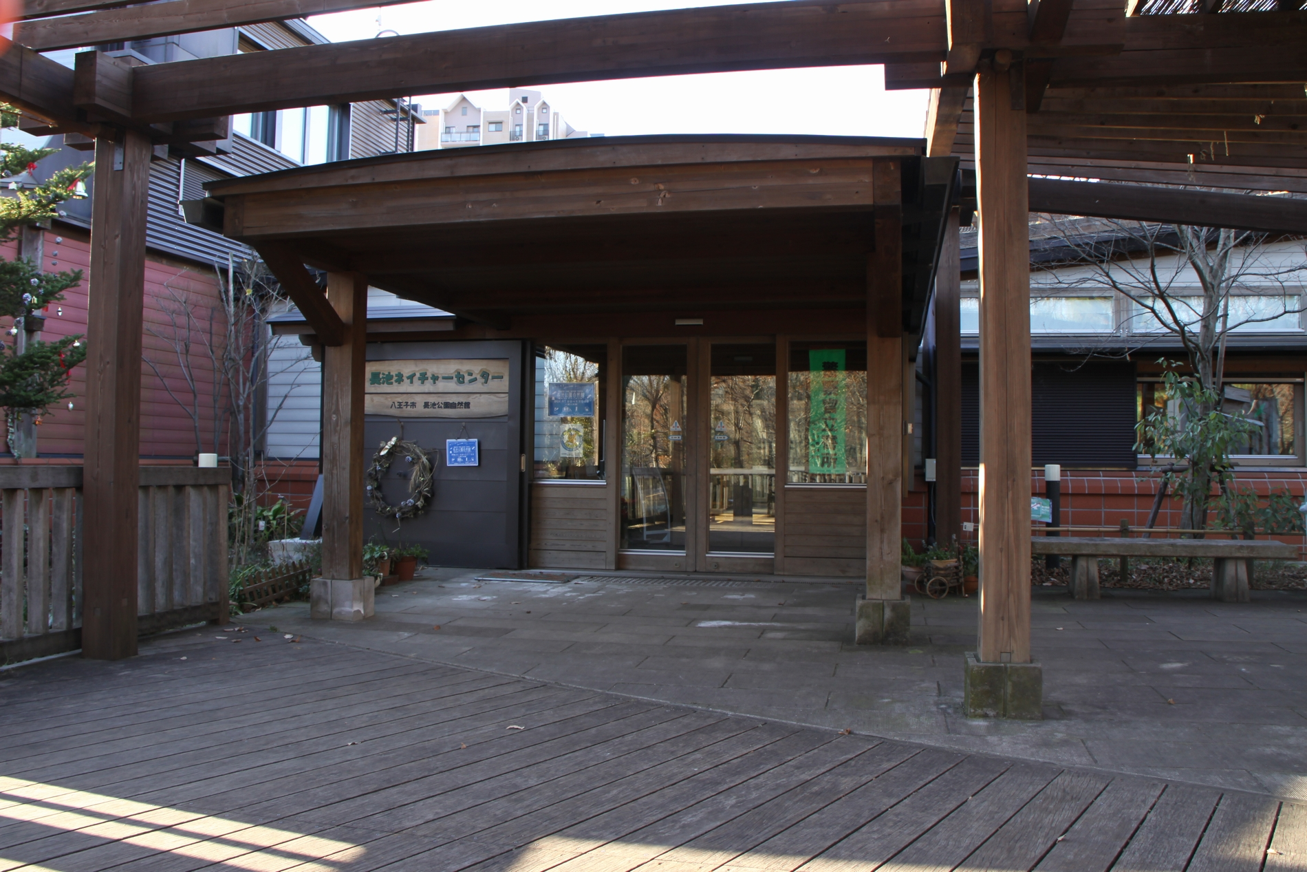 Nagaike Nature Center, Nagaike park, Tokyo.